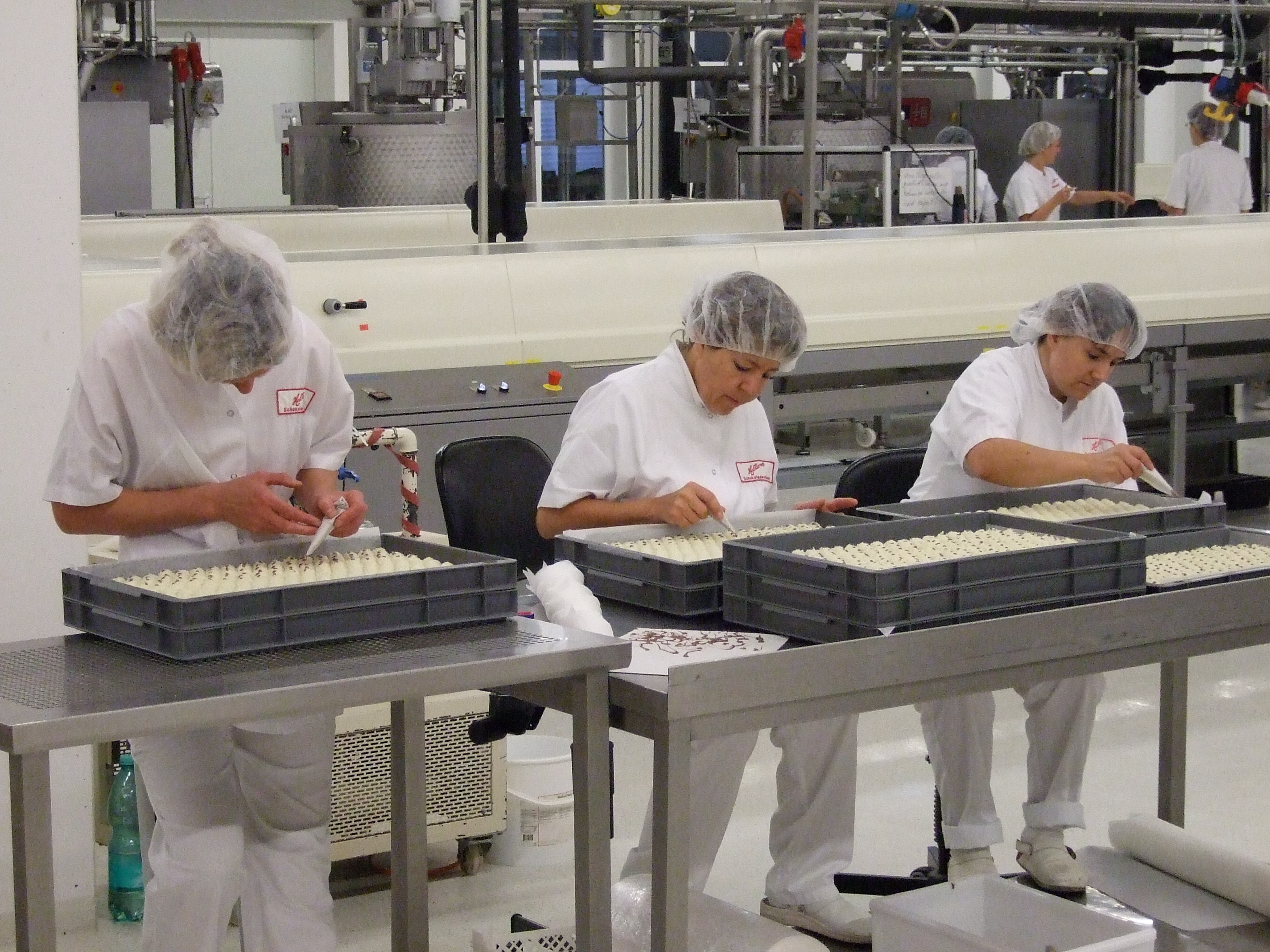 Decorating of Halloren-Kugeln inside the Halloren Chocolate Factory at Halle (Saale)